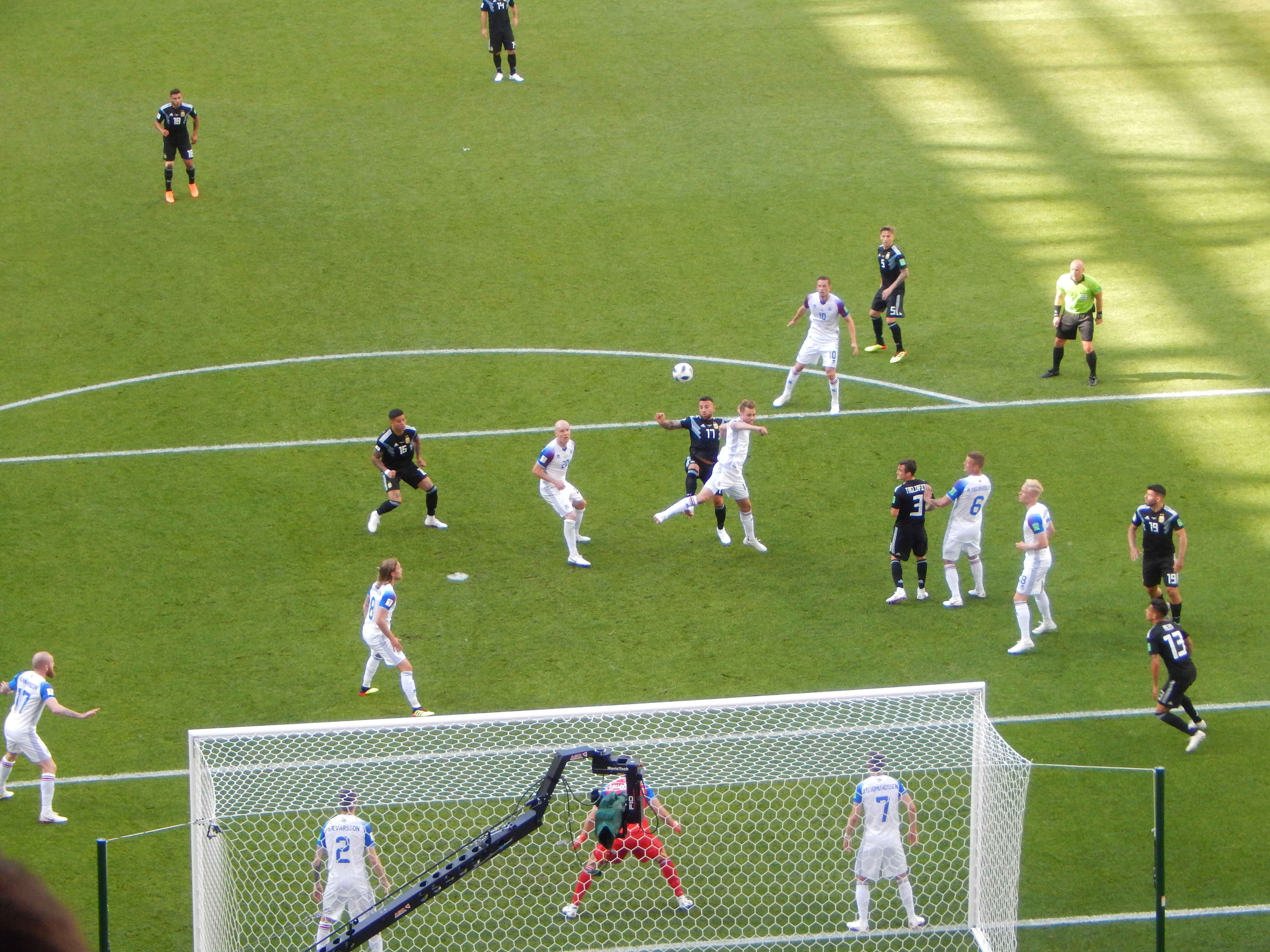 FIFA World Cup 2018, Group D, Argentina vs. Iceland